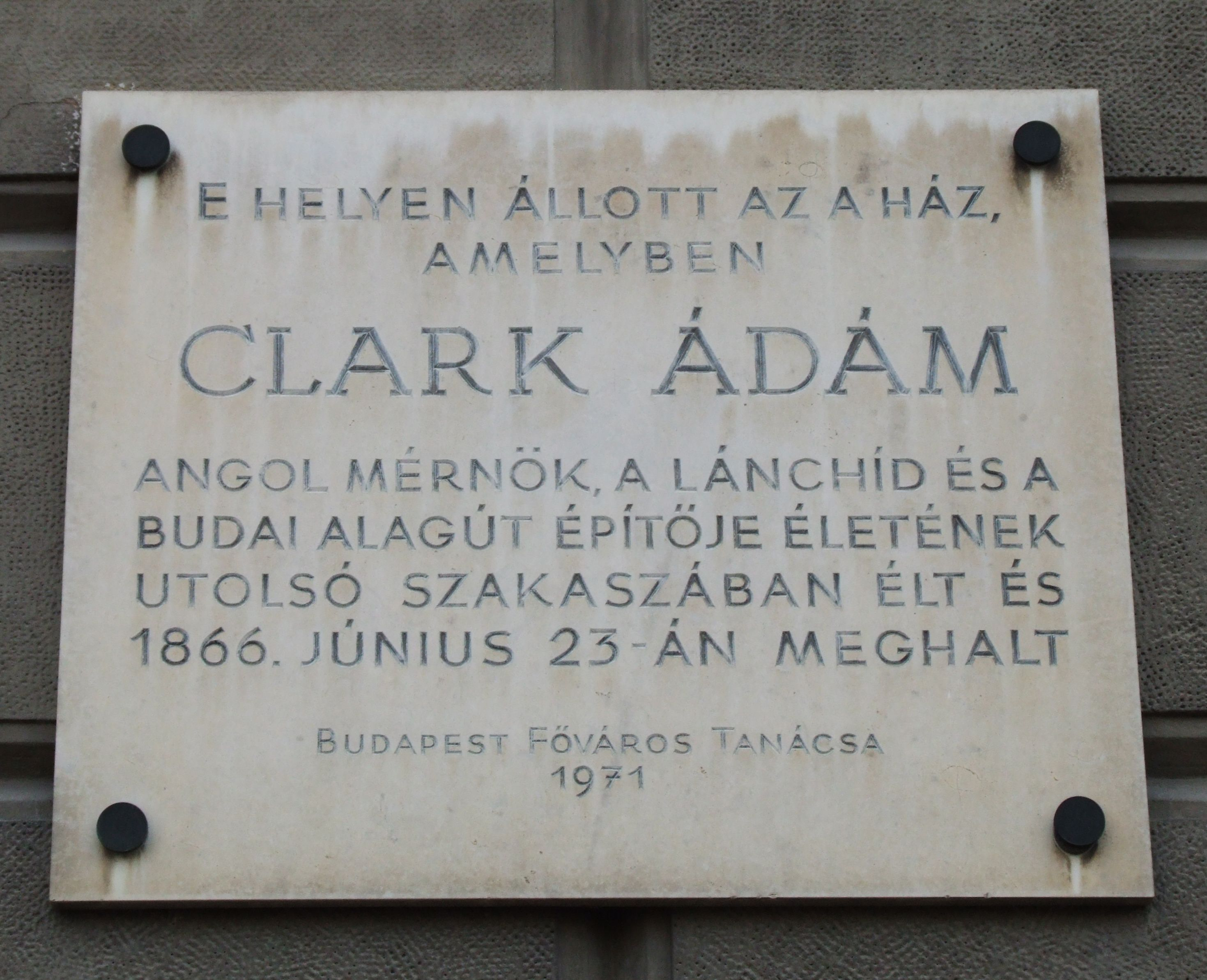 Adam Clark commemorative plaque in Budapest District I, Ybl Miklós Square No 6